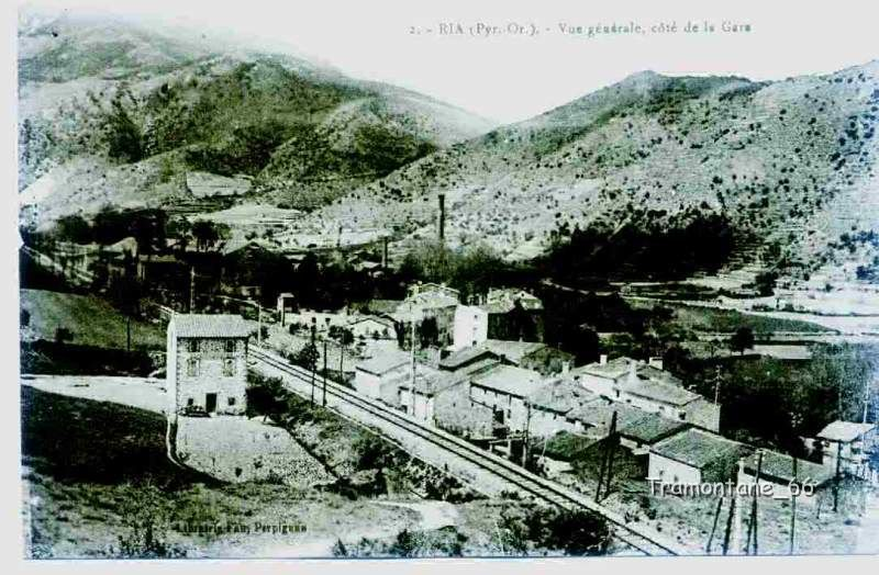 Train station of Ria, in the Pirenées Orientales in France